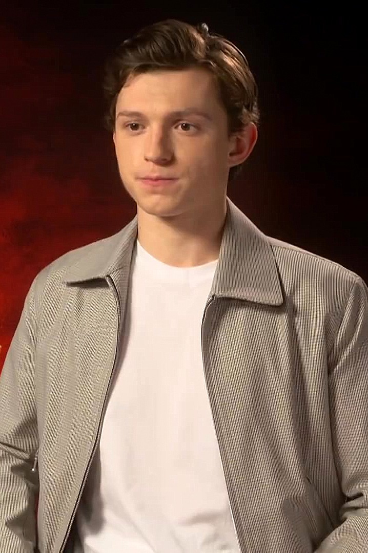 British actor Tom Holland giving interview to MTV.